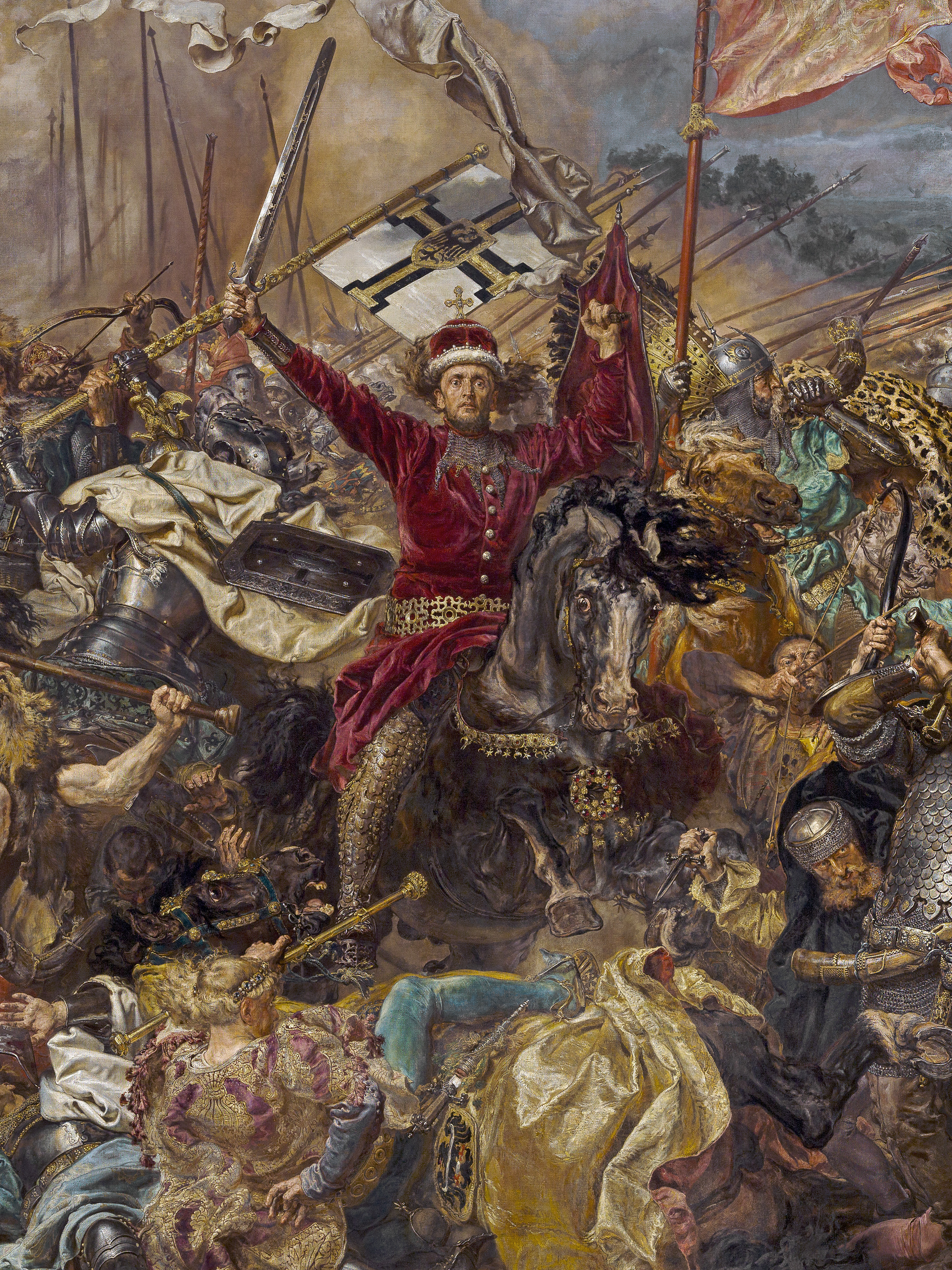 Vytautas on the Battle of Grunwald oby Jan Matejko